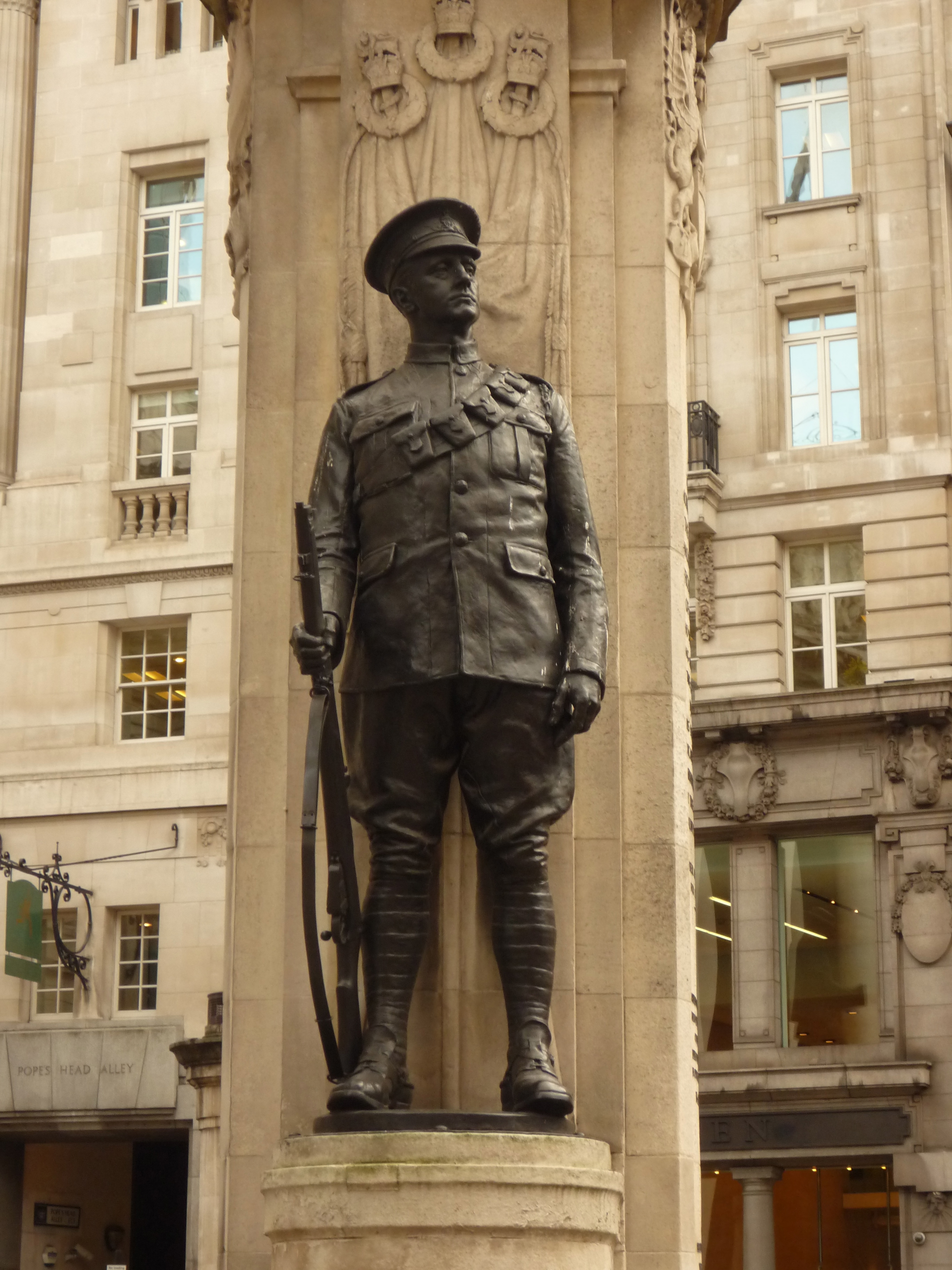 Figure of a Royal Artillery soldier of World War I on the north side of the London Troops memorial at the Royal Exchange, London, sculpted by Alfred Drury.